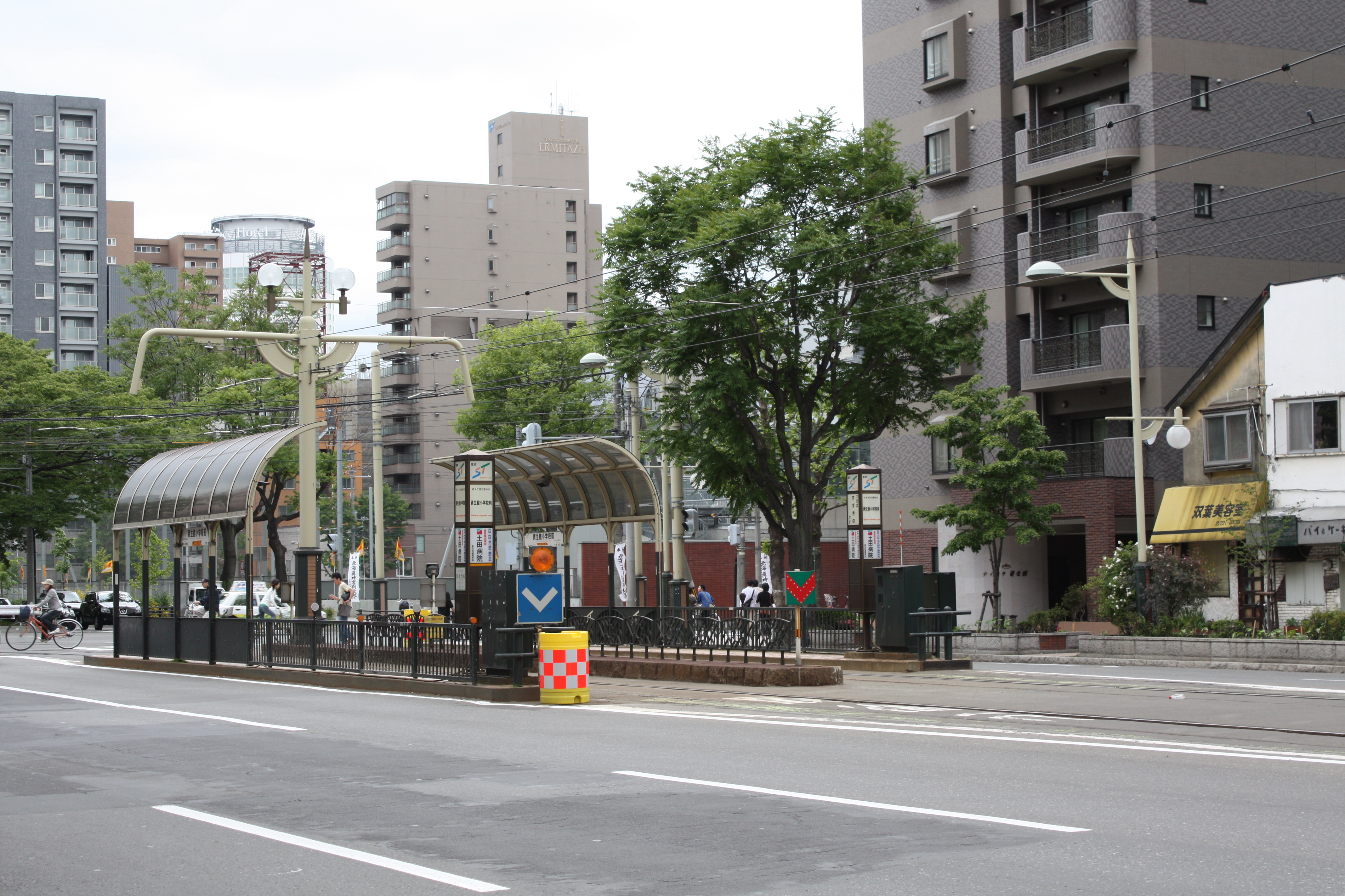 Shiseikan shogakko mae Station in Sapporo, Hokkaido, Japan. It is the station on the Sapporo Streetcar Yamahana Line operated by Sapporo City Transportation Bureau.